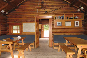 Elizabeth Parker Hut - Bedroom to Kitchen View